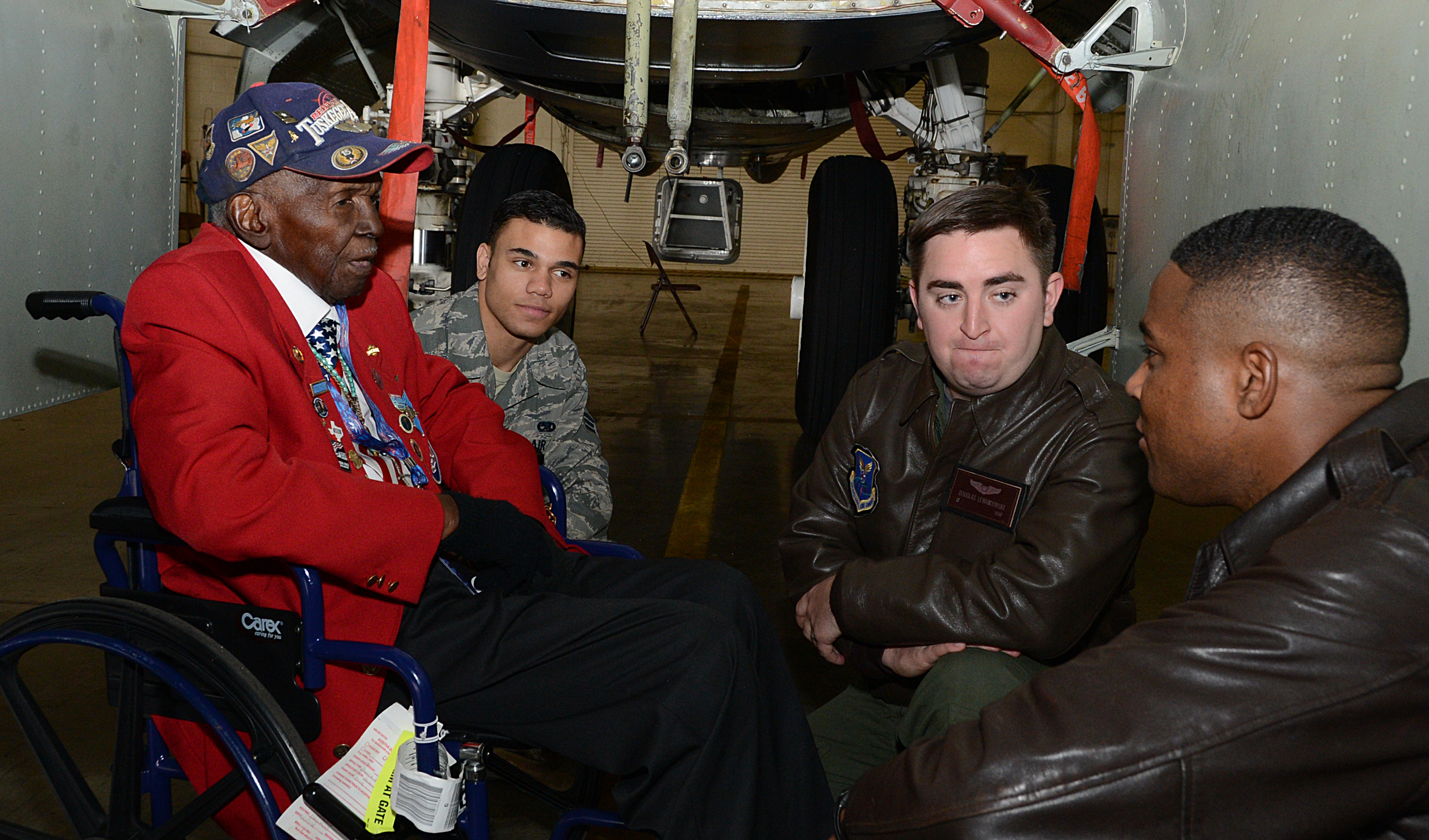 Calvin Spann, a Tuskegee Airman, speaks with Maj. Matthew Millard, right, 11th Bomb Squadron, inside the bomb bay of a B-52H Stratofortress during a visit to Barksdale Air Force Base, La., Dec. 27, 2014. Spann, a lieutenant in the Army Air Corps, would serve in Italy during World War II, where he was a P-51 Mustang pilot and flew in 26 combat missions. (U.S. Air Force photo/Senior Airman Benjamin Gonsier)